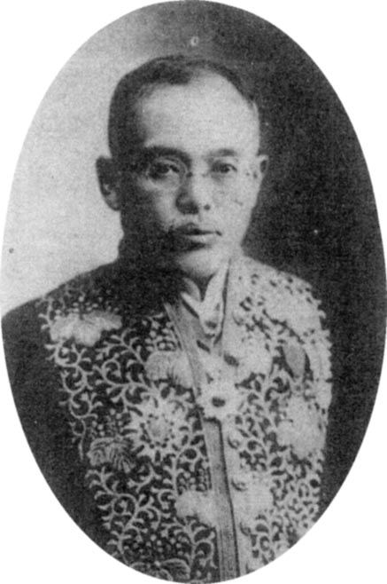 Tōnosuke Watanabe, former director of the Seventh Higher School.